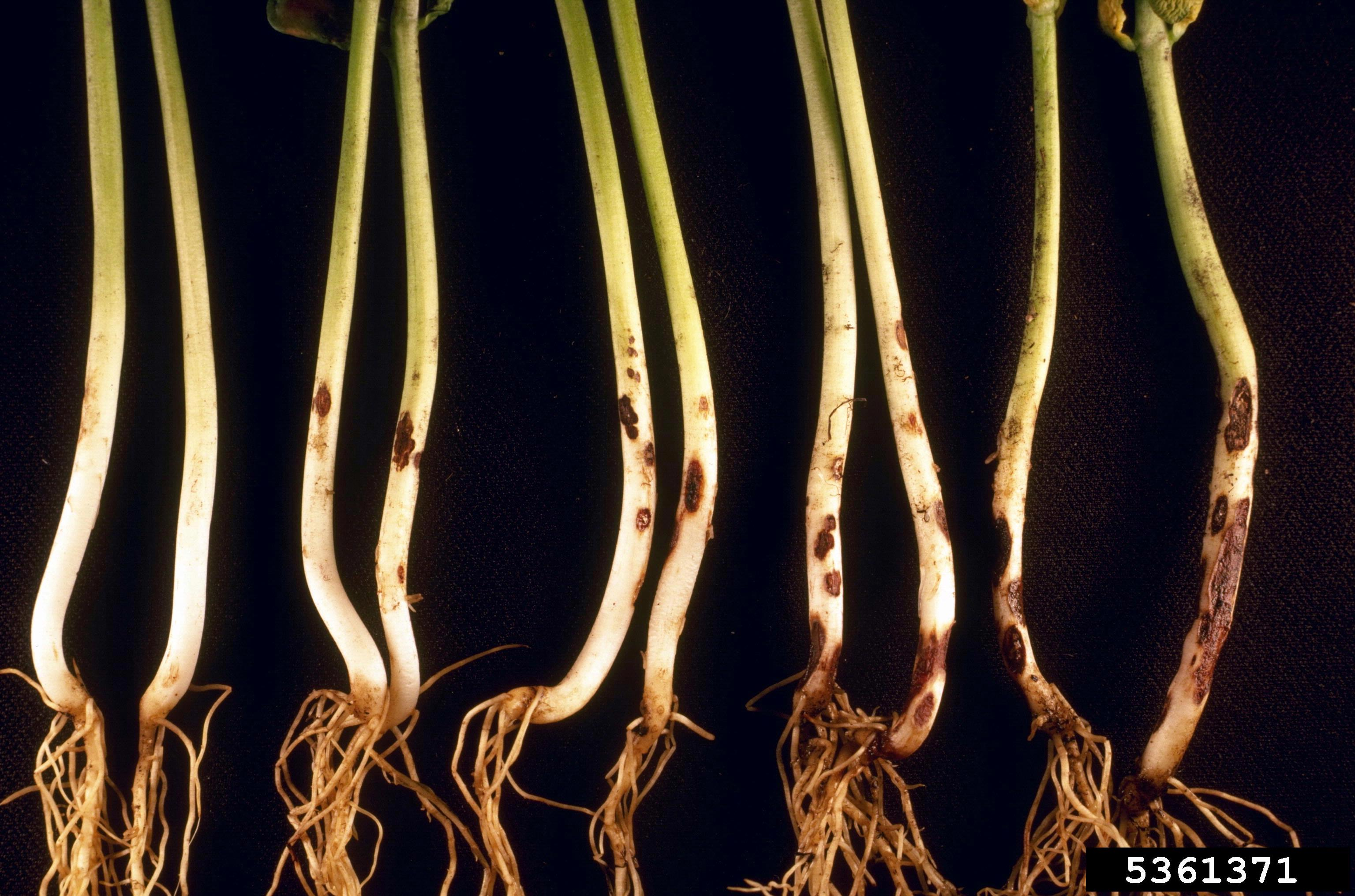 Rhizoctonia solani symptoms on bean roots